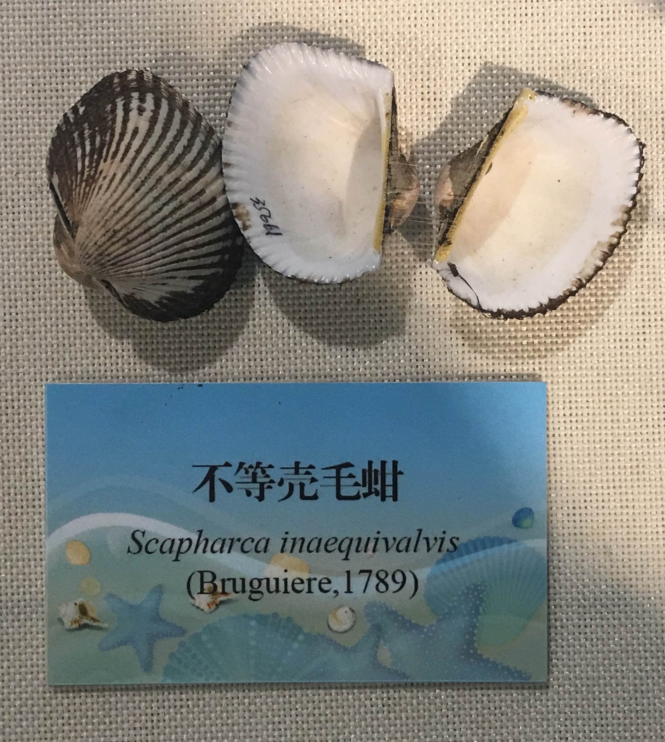 Specimen of shell (Mollusca) in the 2017 echibition at Beijing Museum of Natural History. The shell is collected from the Gulf of Tonkin,by the Natural History Museum of Guangxi.